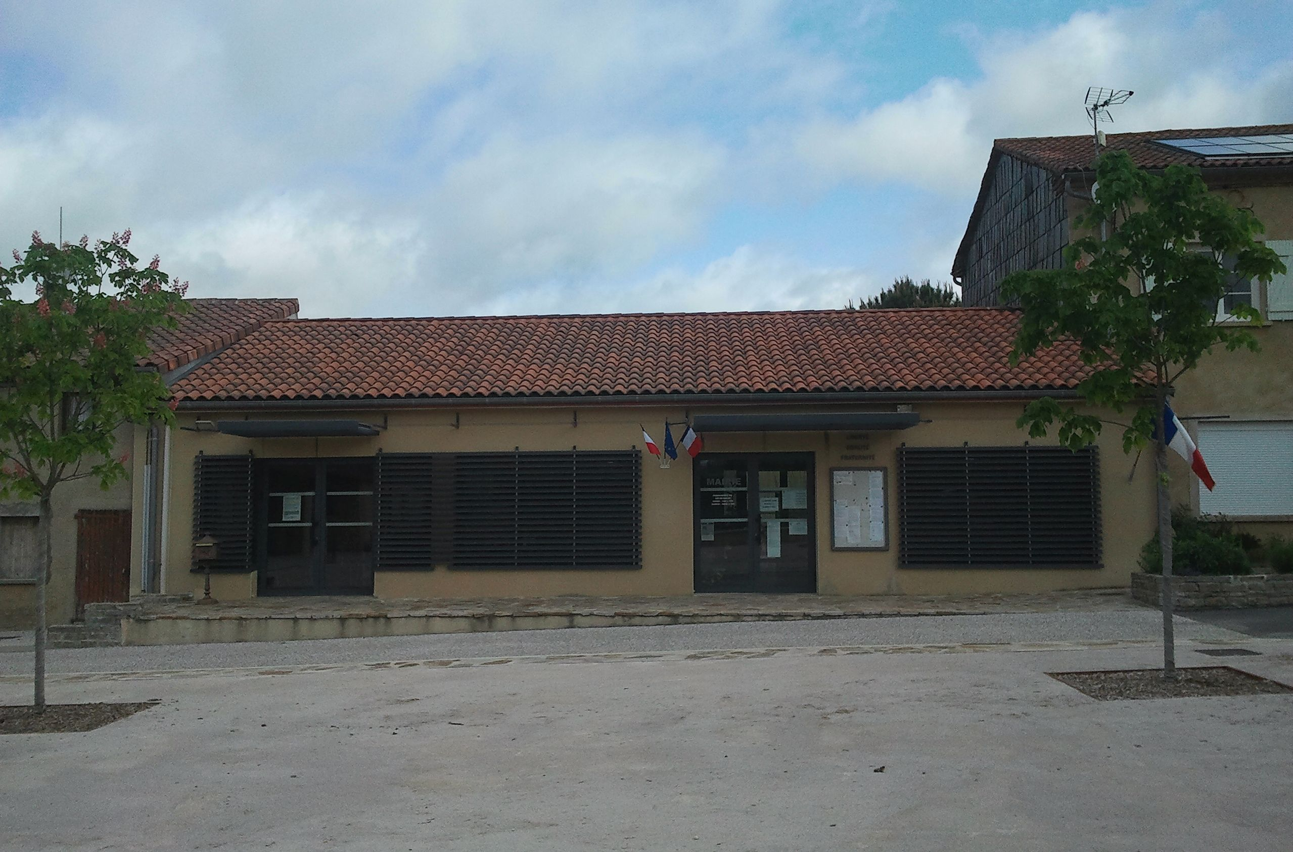 Town hall of Saint-Antonin-de-Lacalm